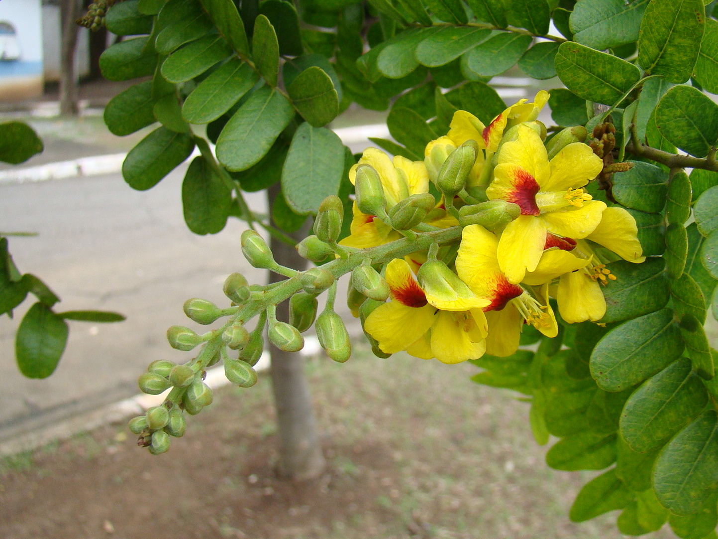 brazilwoof flower